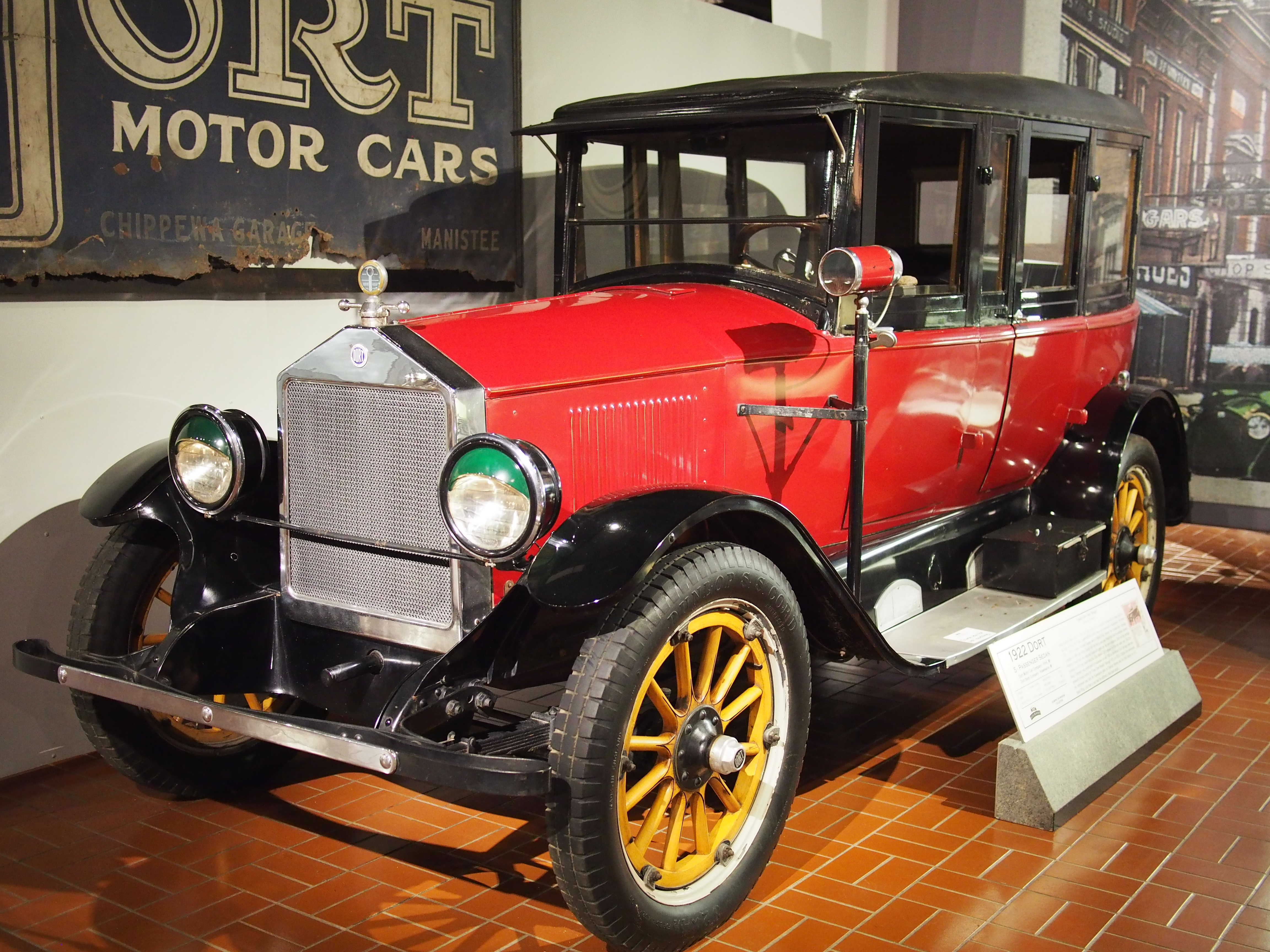 1922 Dort 5 Passenger Sedan Manufactured in Kalamazoo, Michigan